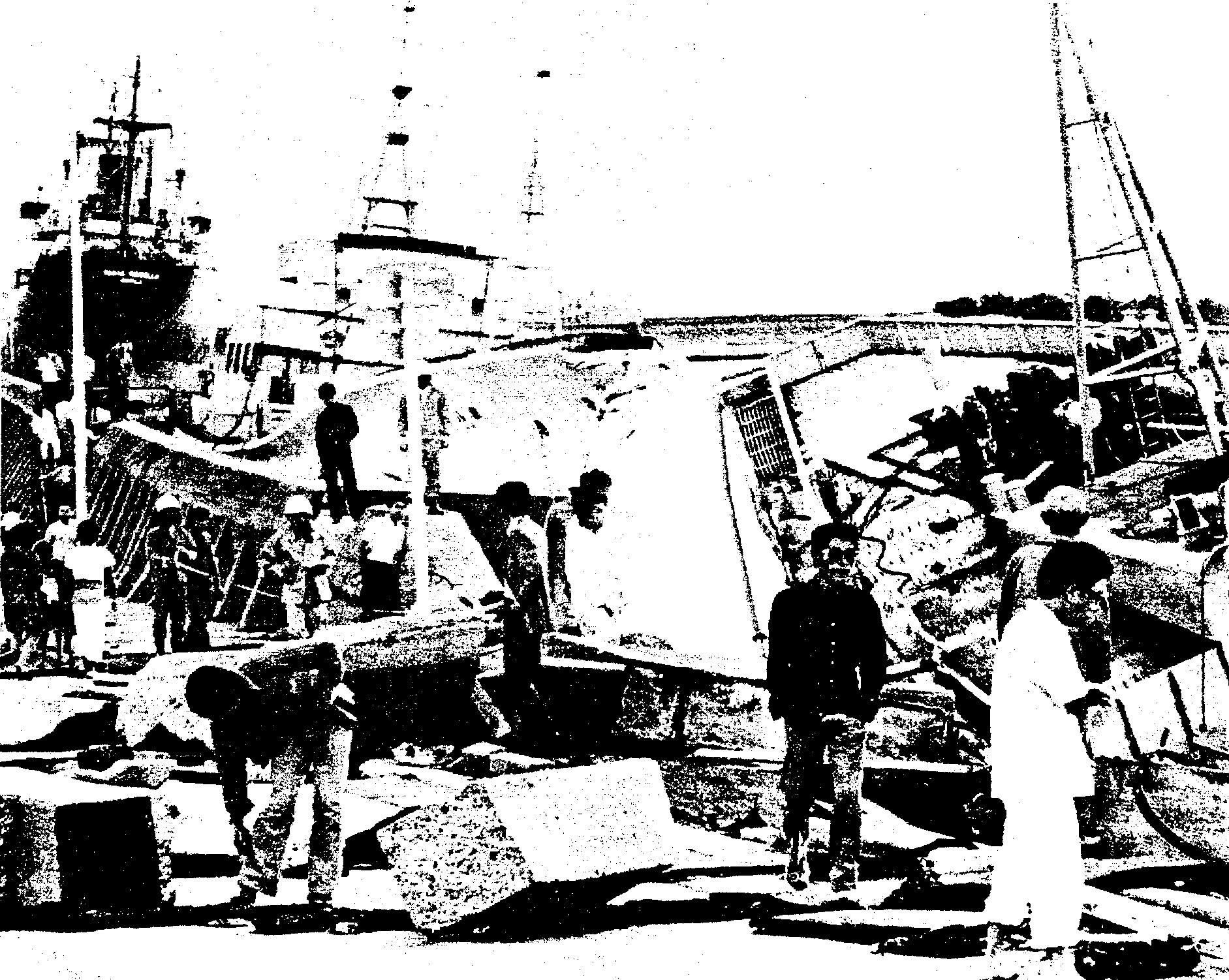 damage to fishing boats from Typhoon Helen